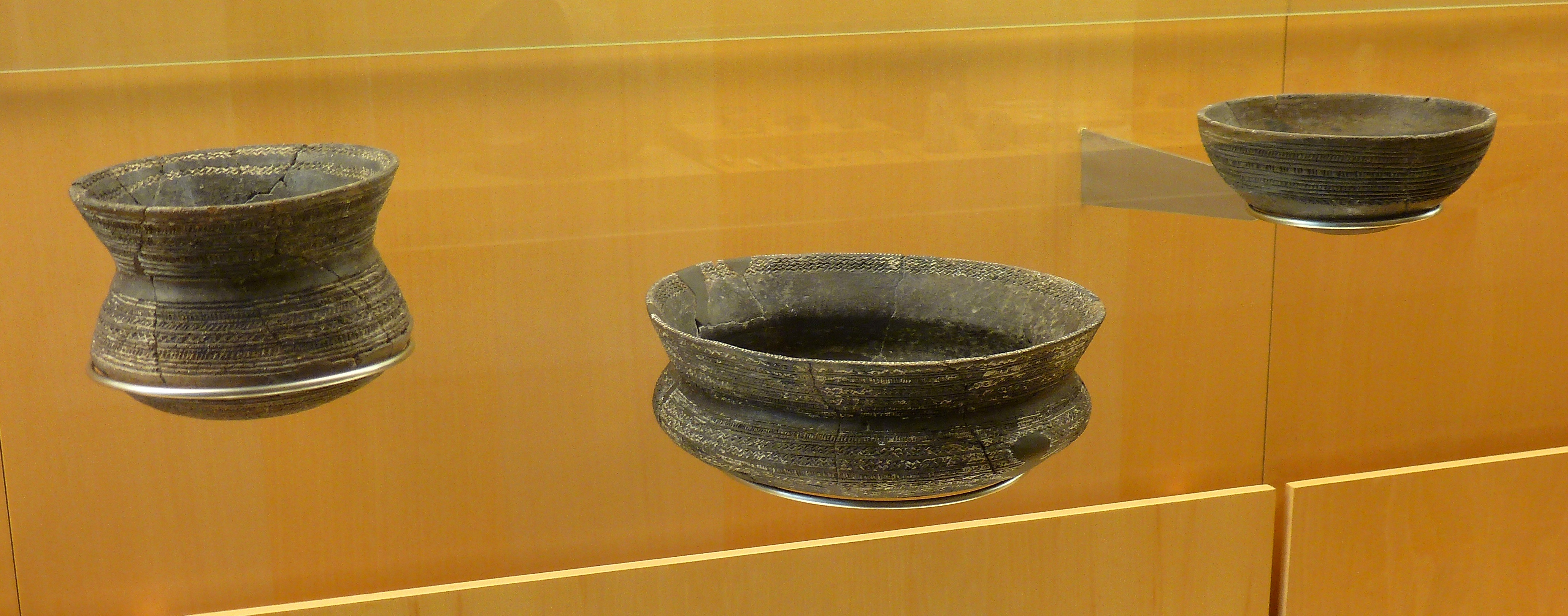 Bellbeaker culture pottery group from Villabuena del Puente, Museum of Zamora, Spain.